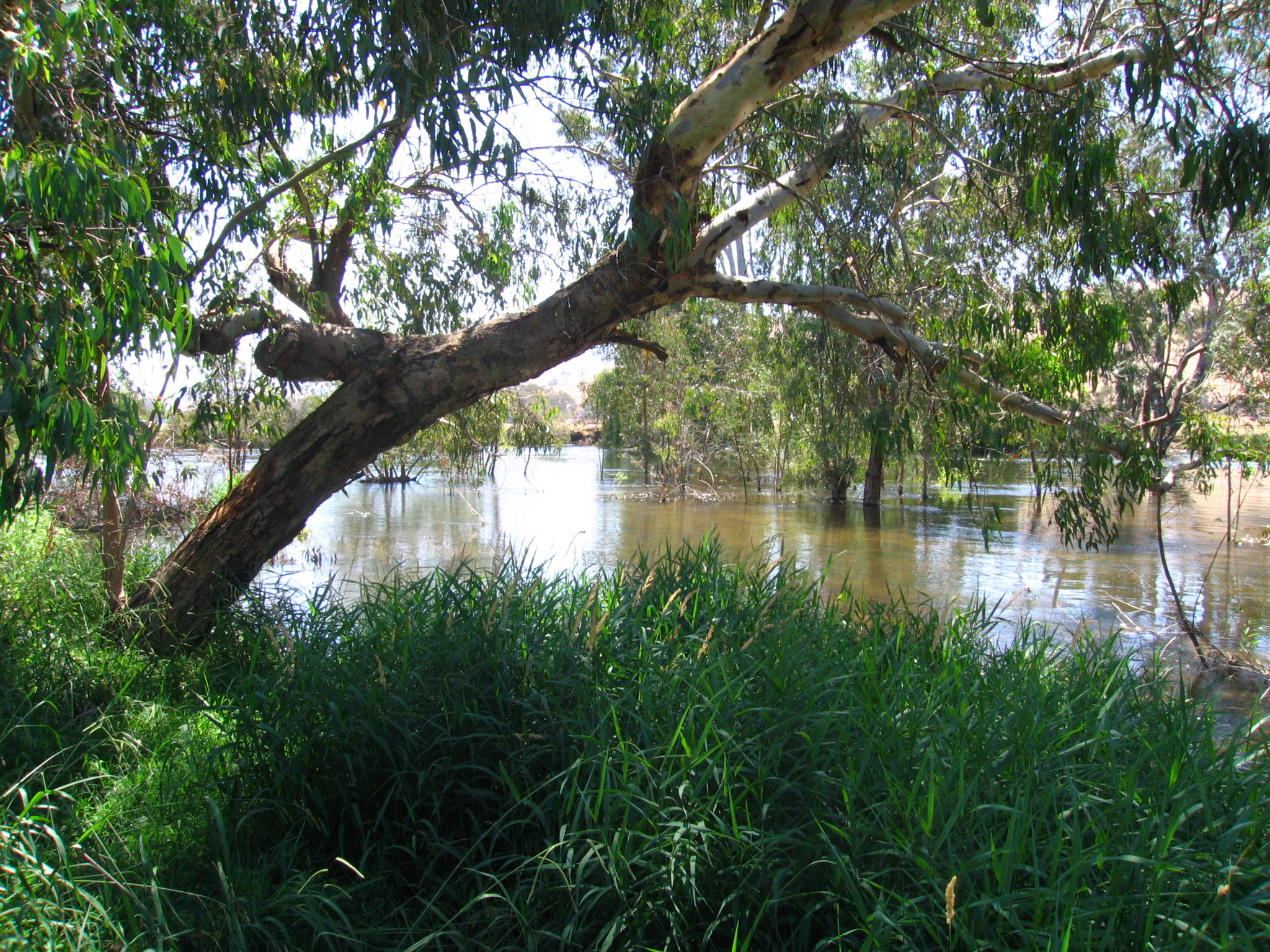 The Mitta Mitta feeds into Lake Hume - The big flow is from a release of the Dartmouth Dam up river. The area is in drought.